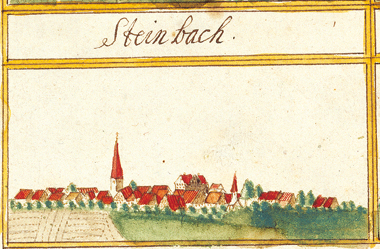 View of Steinbach, today part of Wernau, from the forest register books created by Andreas Kieser